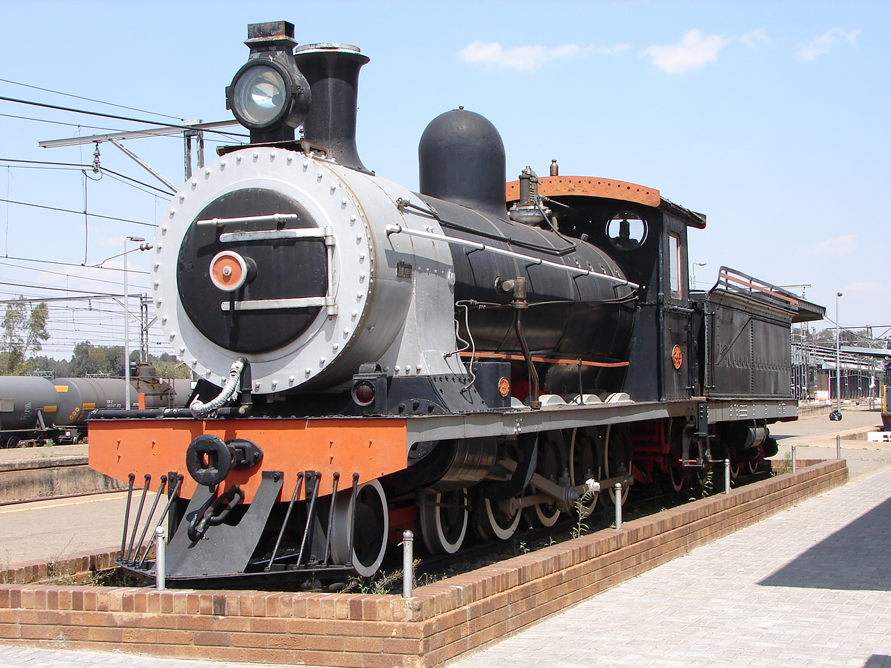 Ex Cape Government Railways Class 7 345 (4-8-0) South African Railways Class 7 976 (4-8-0) Builder's Number: Neilson 4470 (Possibly actually CGR 332/707, SAR 980) Location: Klerksdorp, North West